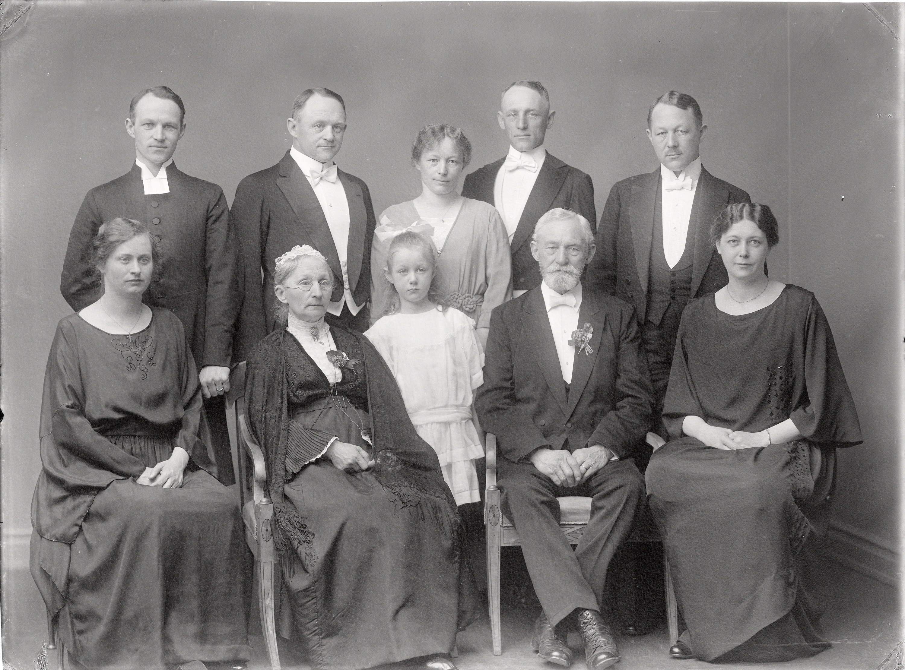 Swedish vicar and author Hjalmar Westeson (1884-1959) and family. Westeson stands in the back row, first on the left.